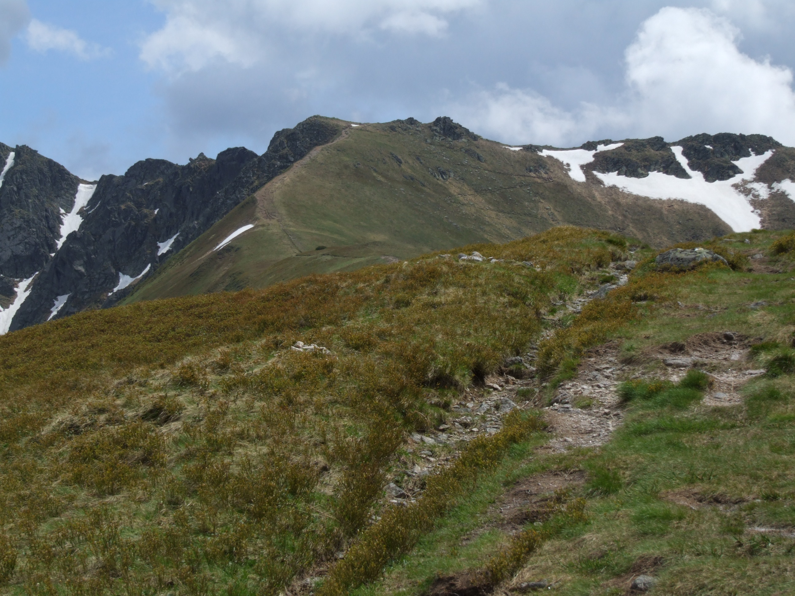 Nizke Tatry (Low Tatras) - peak Krúpova hoľa